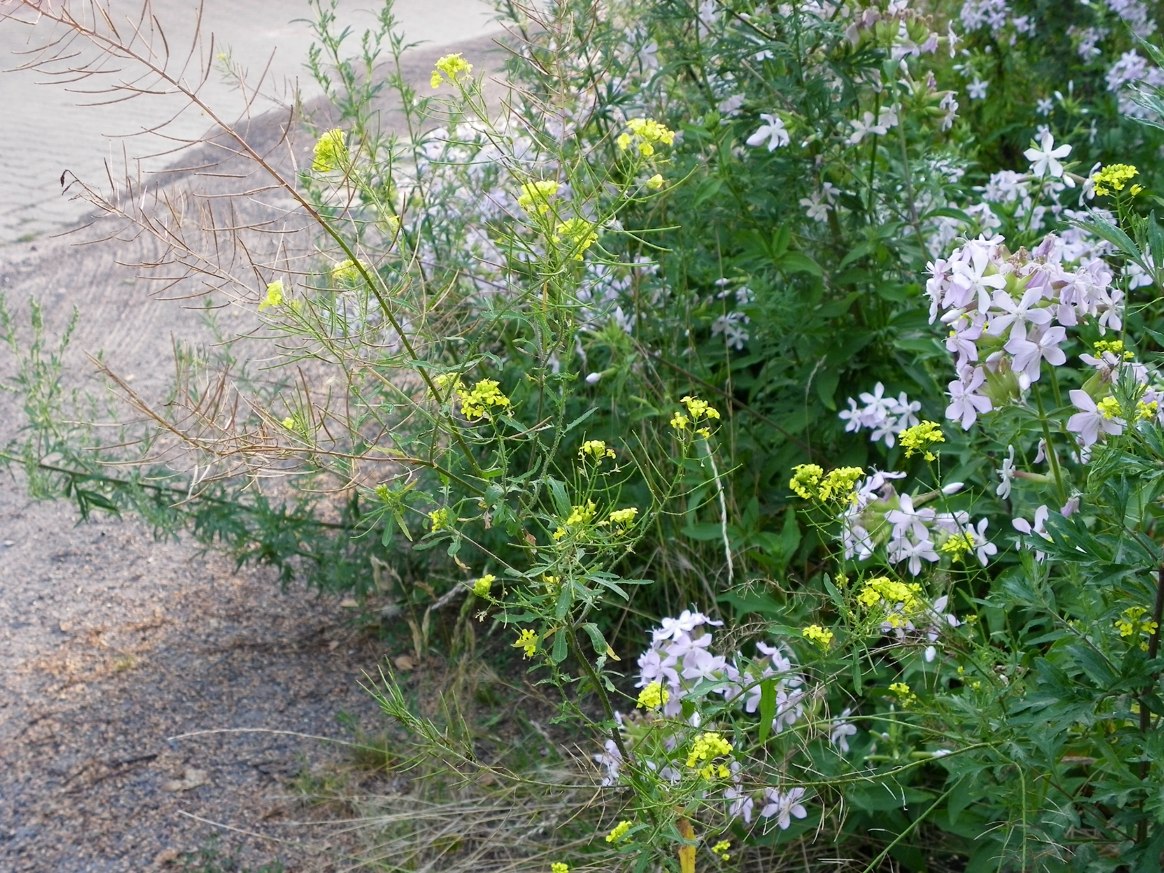 Scientific species: Erysimum cheiranthoides Literatur: Garcke,F.A. (1912): Illustrierte Flora von Deutschland, Lüder, R. (2013): Grundkurs Pflanzenbestimmung